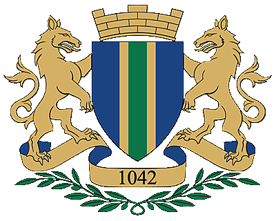 coat of arms of Bar, Montenegro, officially adopted on 15.12.2006. Author Srđan Marlović.